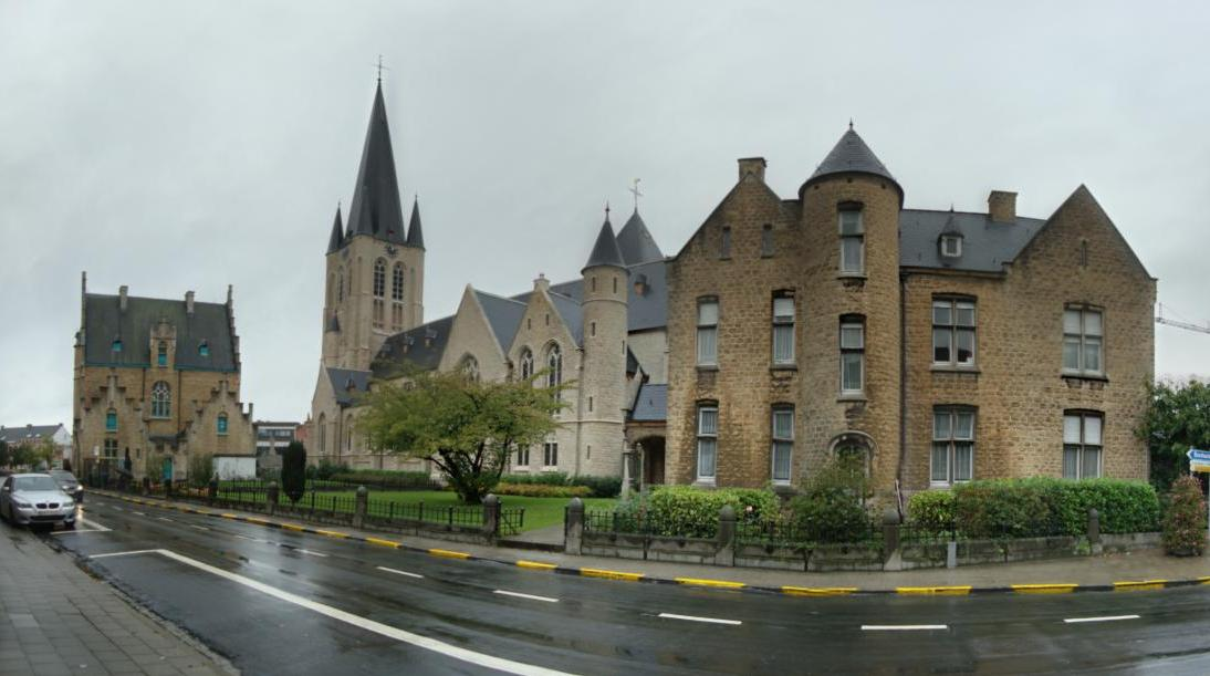 Fence wall with fence around church, rectory and town hall in Gothic Revival style, 1910